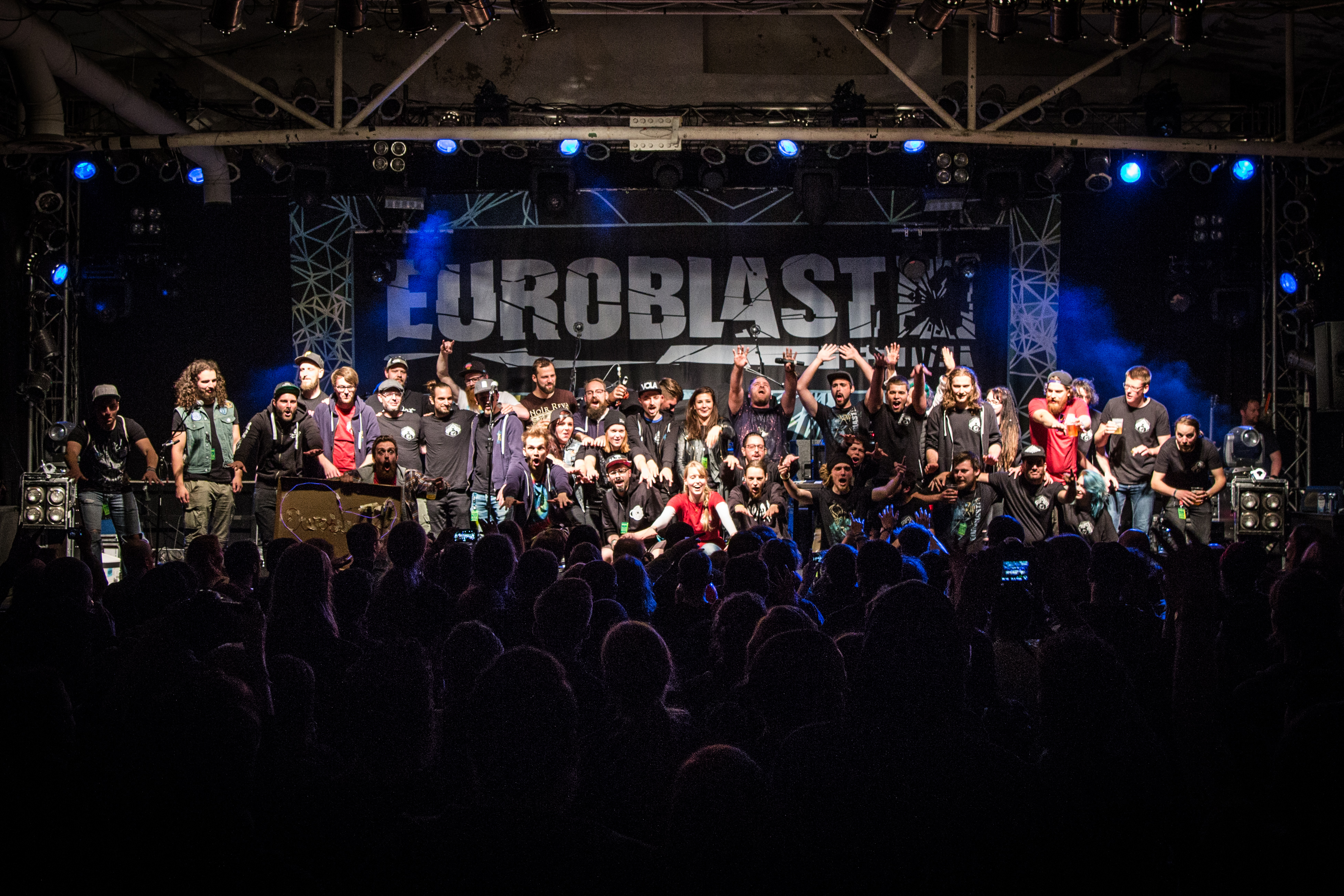 Euroblast Festival, Cologne 2017